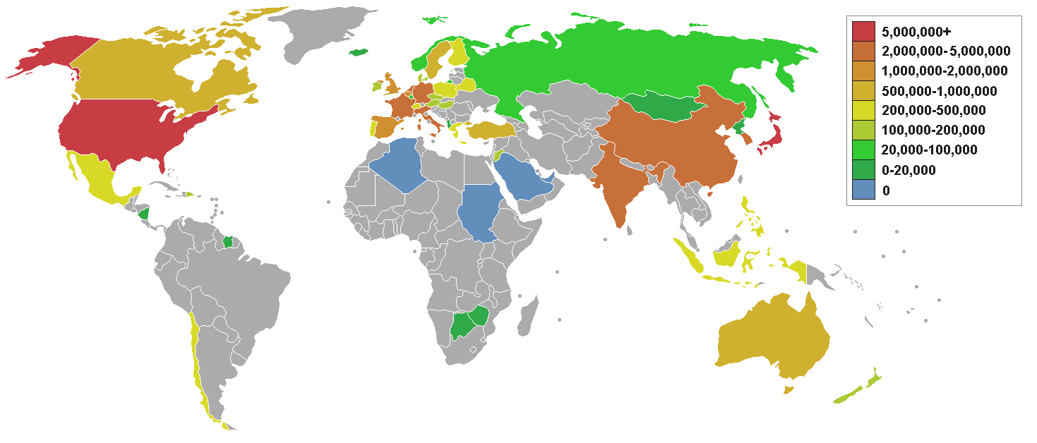 oil imports in bbl/day, as listed on the CIA factbook (CIA data is incomplete). Data from before 2006. See also Image:Oil exports.PNG.